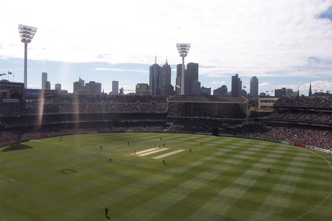 One-day cricket at the MCG. Photo taken by Russell Degnan. Image placed in the public domain by the author